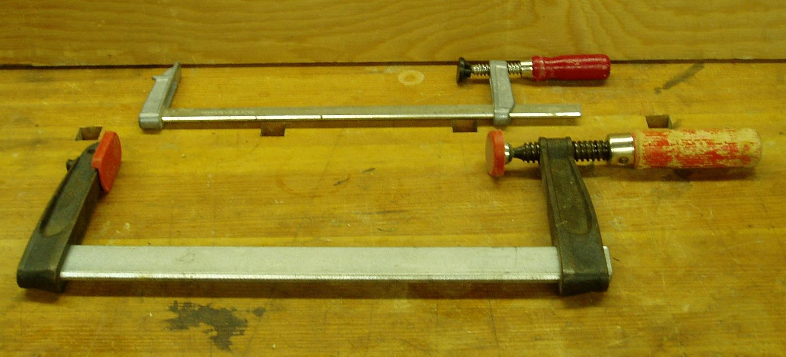 Picture of f- clamps (or bar clamps) taken 18 September, 2005 by Luigi Zanasi (myself) on my workbench using a Olympus digital camera.